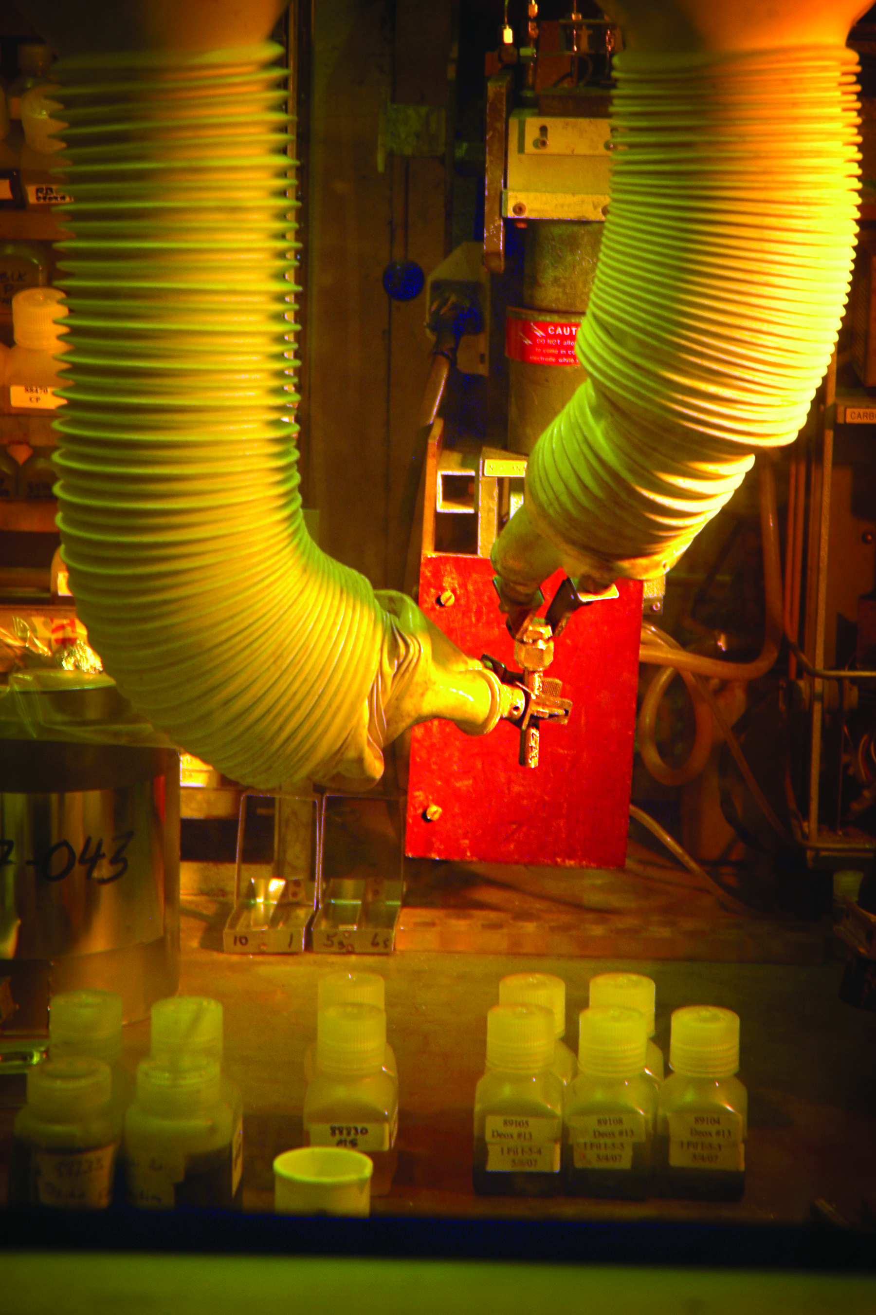 Idaho National Laboratory - Nuclear Materials Characterization Department. Advanced manipulators inside laboratory hot cells can be used to work with even the smallest pieces of equipment.